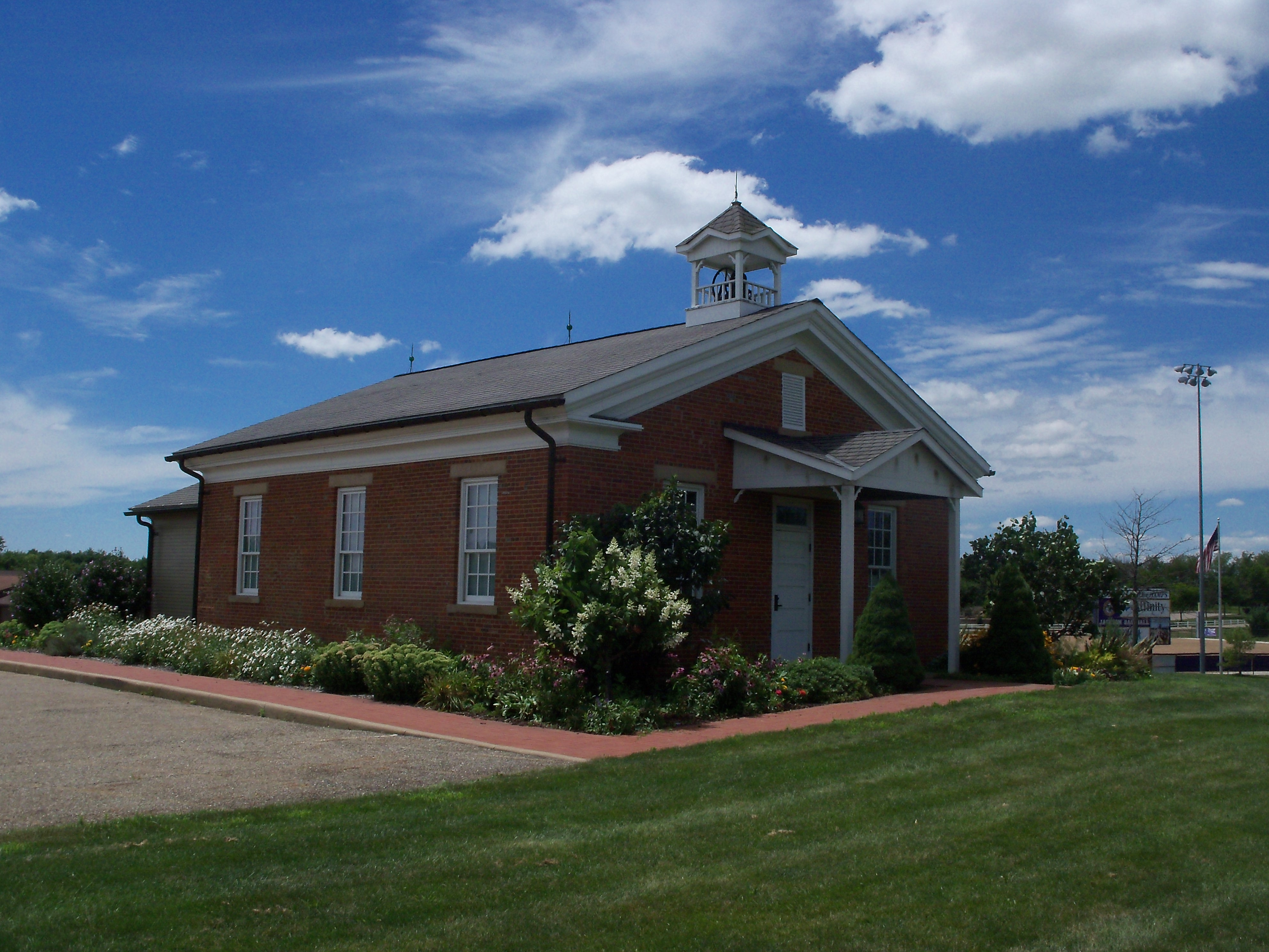 Jackson Center One Room School is now home to the Jackson Township Historical Society